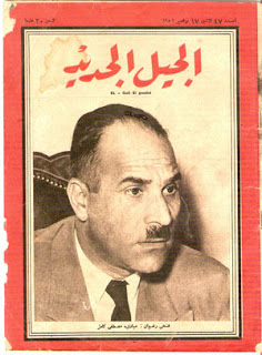 Fathy Radwan 1953 al-Gil al-Gadid magazine as Minister of Public media